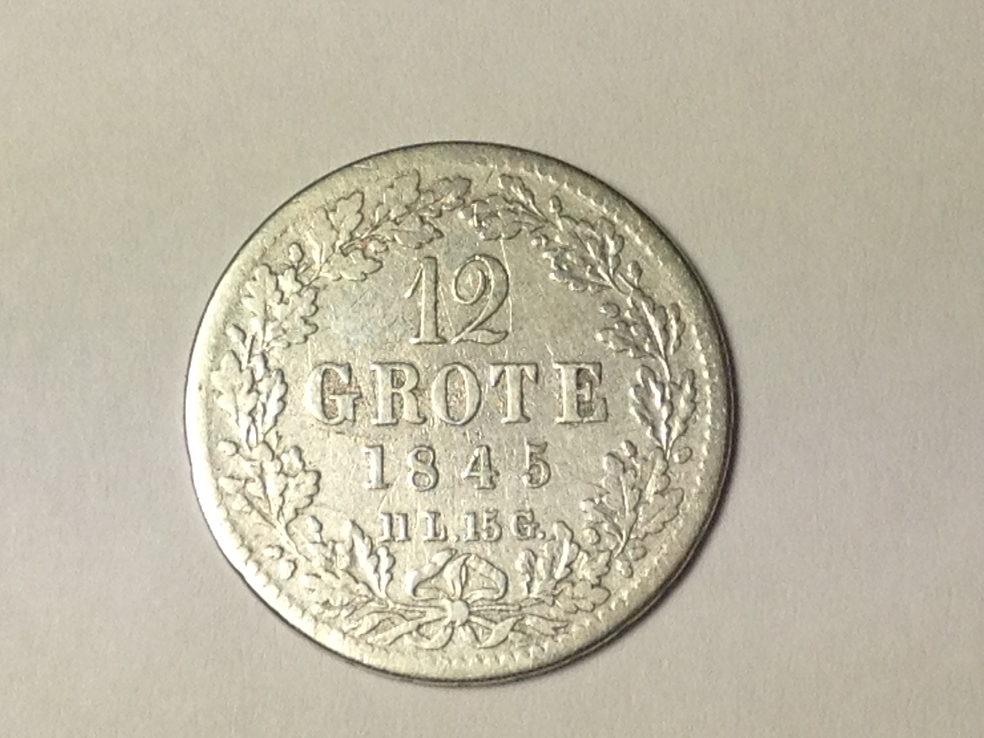 Obverse of 12 Grote 1845. Coin from my collection. Photo was made by me personally